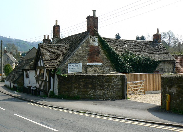 Ram Inn, Potters Pond, Wotton under Edge The old inn looks as if it has been abandoned. Not so. It has a long and interesting history dating back to the 13th or 14th century, or possibly earlier. The property is owned and occupied by a fascinating old gentleman who purchased it from a brewery in 1968 for £2600. It is said to be haunted by a variety of ghosts, was a haunt of highwaymen and has connections to the local parish church. The owner invited me in to take a look around, something he does with everyone who shows an interest in the place. Despite the auras within the building that reportedly interfere with modern electronics, I was able successfully to obtain a number of images from within the place which I may attempt to submit when I've thought about it some more. The interiors reminded me of Snowshill Manor, a National Trust property stuffed with artefacts from a lifetime's collection. The Ram Inn is not quite so grand or so organised but it is chockablock with old fowling pieces, stuffed animals, clocks, a ship's wheel, an insurance mark, paintings, carvings, furniture, bric a brac and some motorbikes. Structurally the building is in a poor state. It is listed Grade II* National Heritage List for England but I couldn't find it on the Buildings at Risk register. There is quite a bit about the place on the web such as this site Next image Diversion to interior